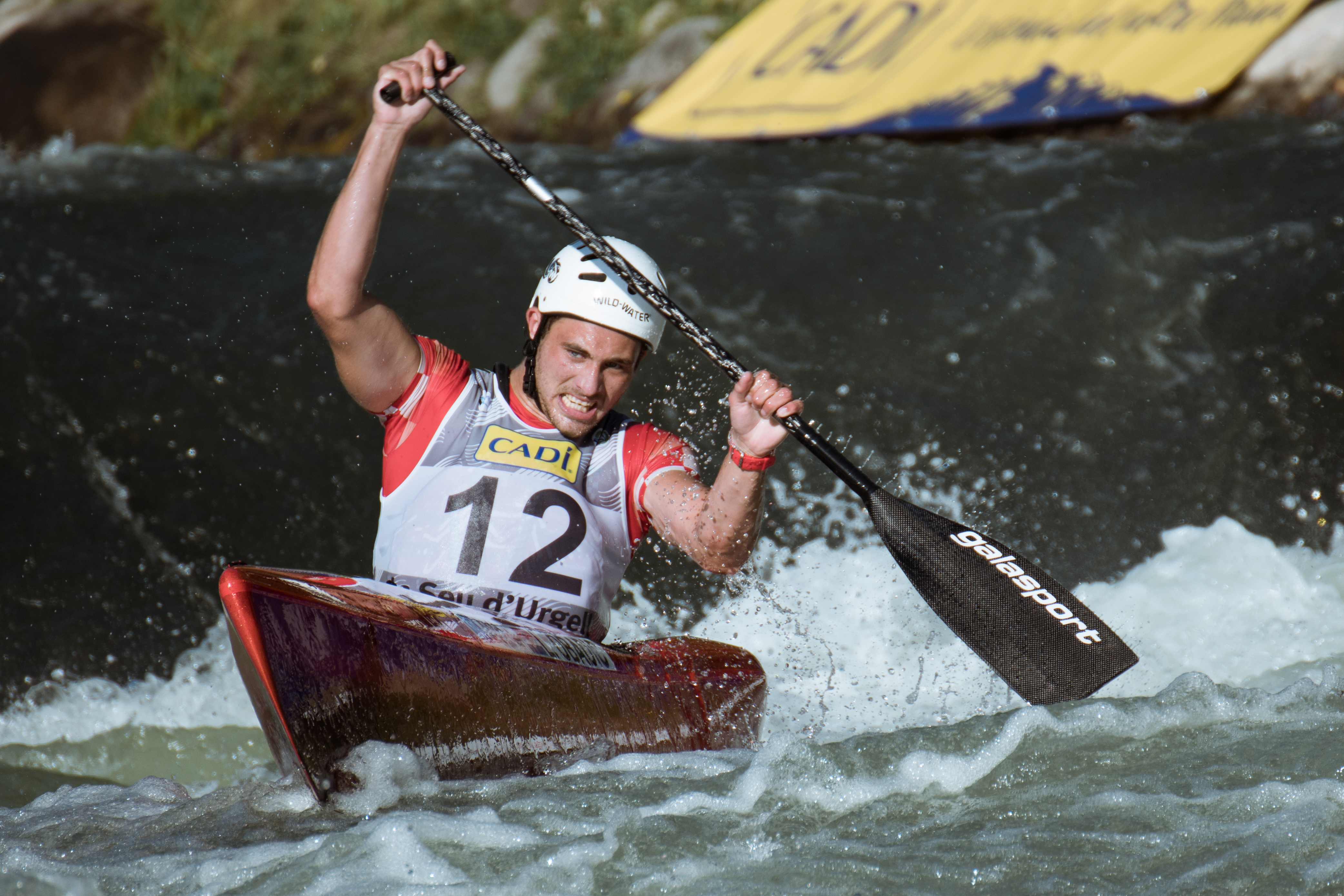 Luka Obadić during the 2019 Canoe Wildwater World Championships in La Seu d'Urgell, Spain.